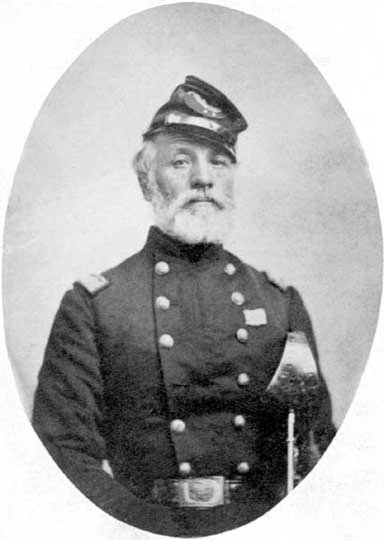 Miklós Perczel de Bonyhád was a Hungarian landholder, general, and one of the leaders of the Hungarian Revolution of 1848. After the emigration he participated in the American Civil War as a colonel of the Union Army. He had signification role in the liberation of Missouri.